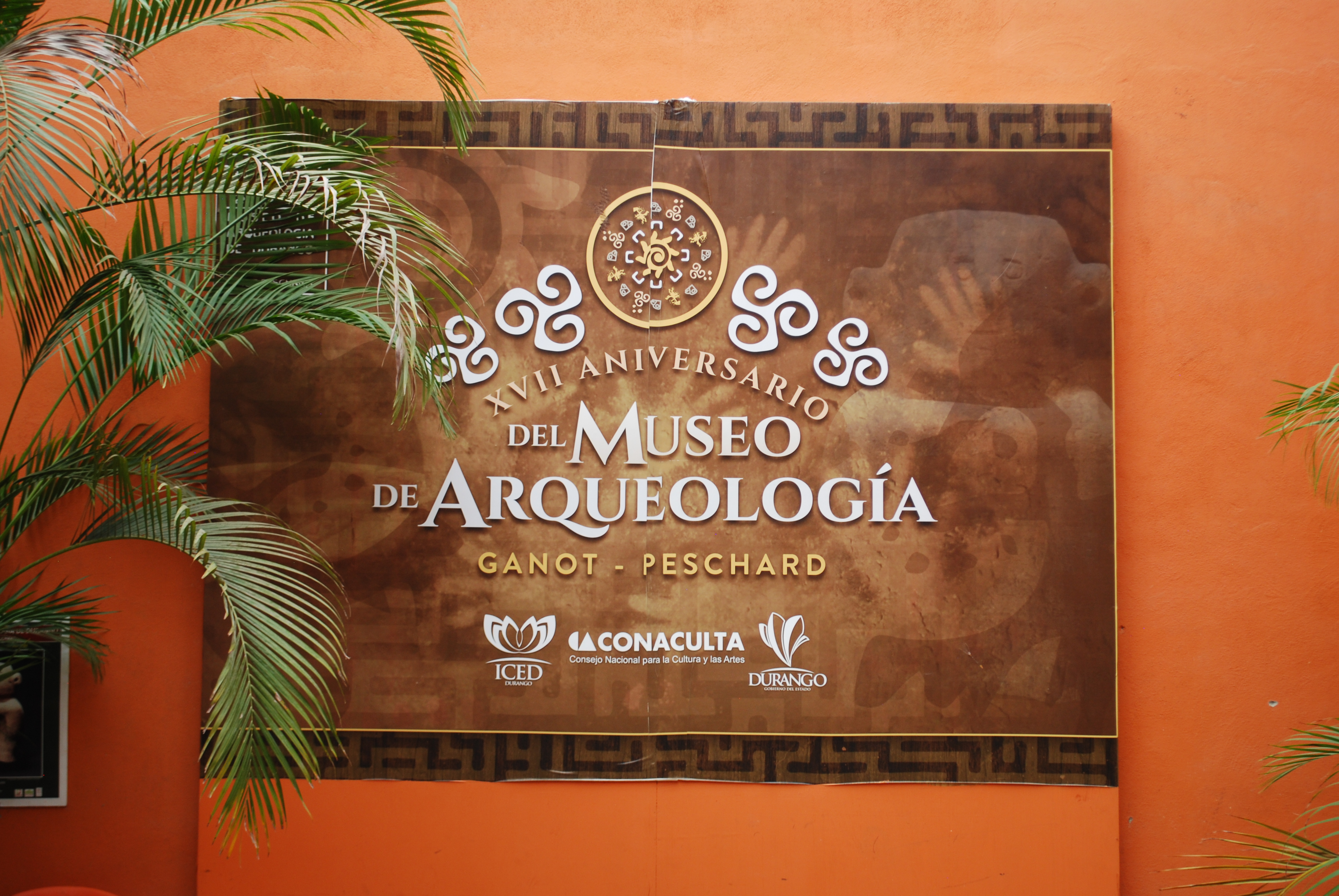 Sign for the Museo de Arqueología de Durango Ganot-Peschard in Victoria de Durango, Mexico